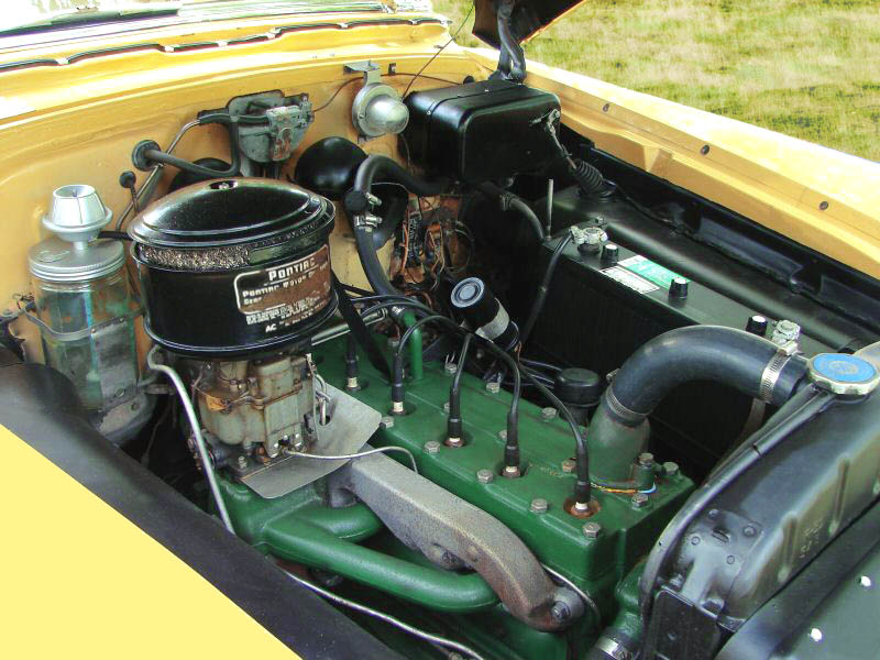 Passenger side, front quarter view of the Pontiac Straight-8 flathead engine, a 268 cubic-inch, in a 1954 Pontiac Star Chief.